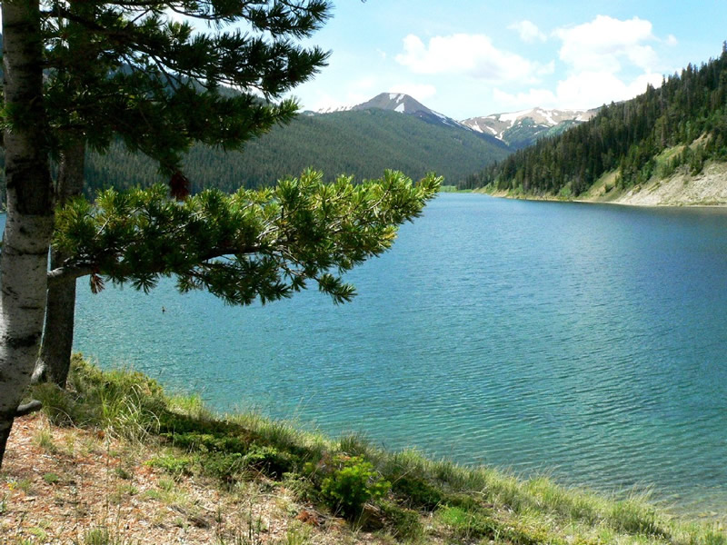 Middle Piney Lake in the Wyoming Range. Taken from the USFS Bridger-Teton National Forest Website.